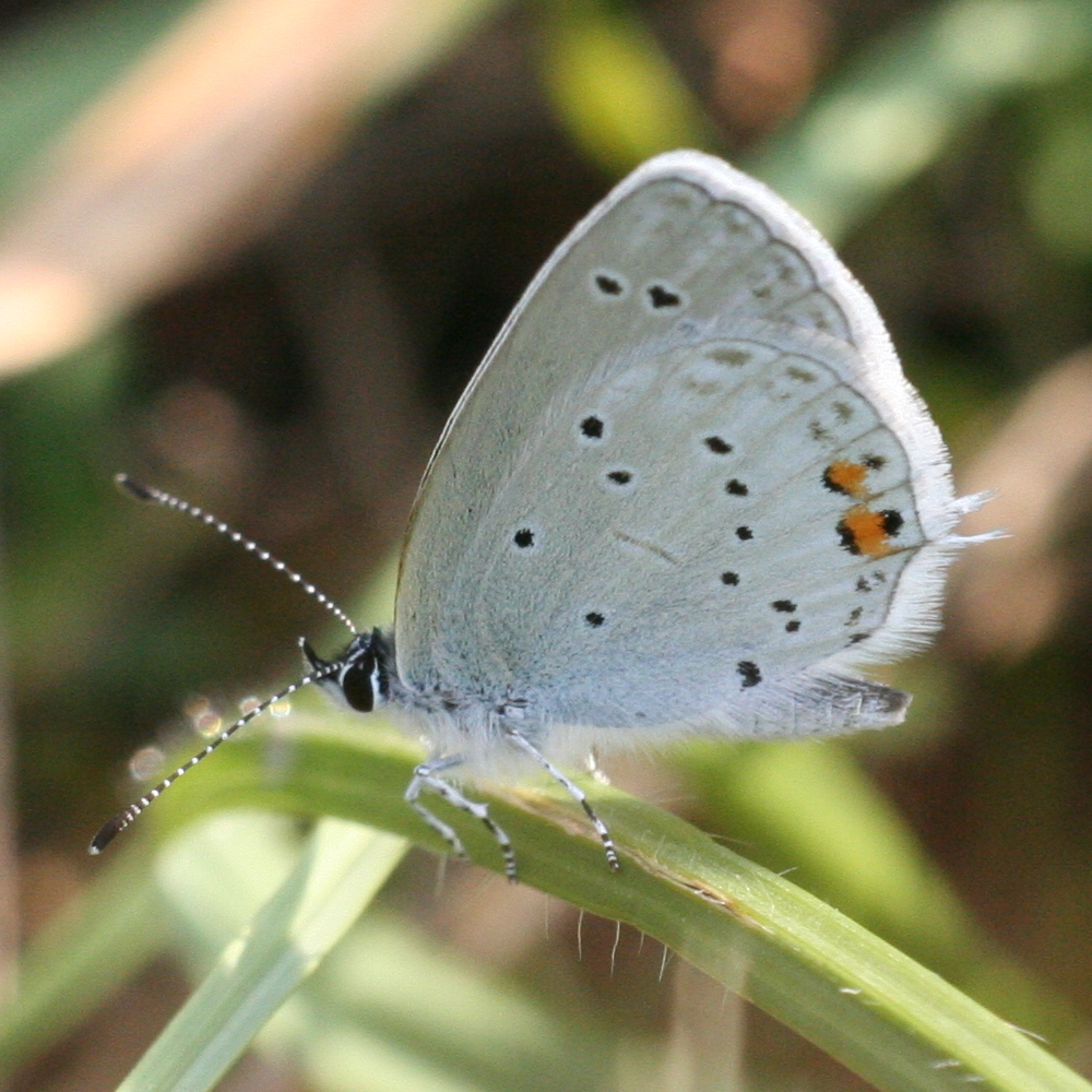 A male short-tailed blue butterfly (Cupido argiades), photographed in Weinsberg